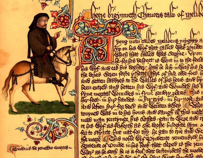 Portrait of Chaucer as a Canterbury pilgrim, Ellesmere manuscript of The Canterbury Tales. The Tale of Melibee „A yong man called Melibeus, myghty and riche, bigat upon his wyf, that called was Prudence, a doghter which that called was Sophie. Upon a day bifel that he for his desport is went into the feeldes hem to pleye. His wyf and eek his doghter hath he left inwith his hous, of which the dores weren faste yshette. Thre of his olde foes han it espyed, and setten laddres to the walles of his hous, and by wyndowes been entred, and betten his wyf, and wounded his doghter with fyve mortal woundes in fyve sondry places, this is to seyn, in hir feet, in hire handes, in hir erys, in hir nose, and in hire mouth, and leften hire for deed, and wenten awey.“